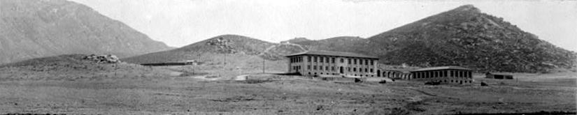 View of Citrus Experiment Station (c. 1916) — at Box Springs Mountains, in Riverside, California